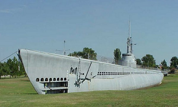 USS Batfish; Present home of the Batfish (SS-310), at Muskogee, OK. U.S. Navy photo courtesy of (Historical Ships Naval Association) web site.